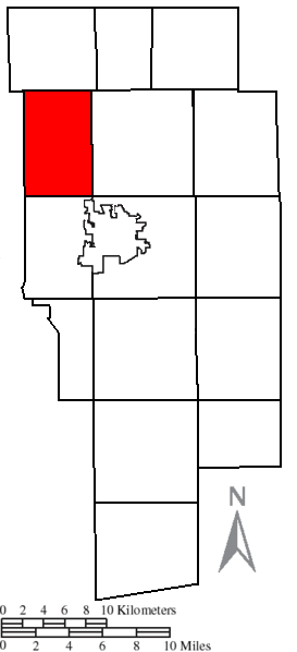 Originally created by the US Census. Modified by myself to highlight the township.